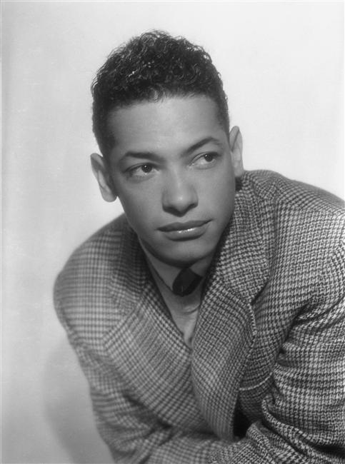 Studio photo